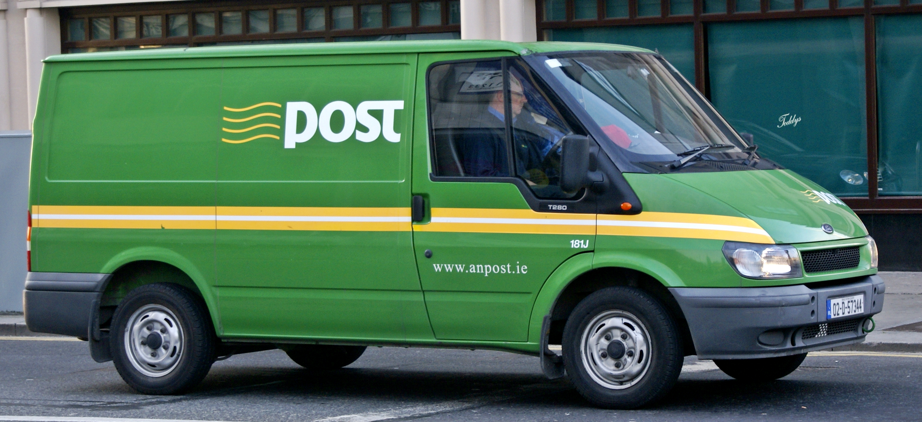 An Post van for delivering mail in Ireland.